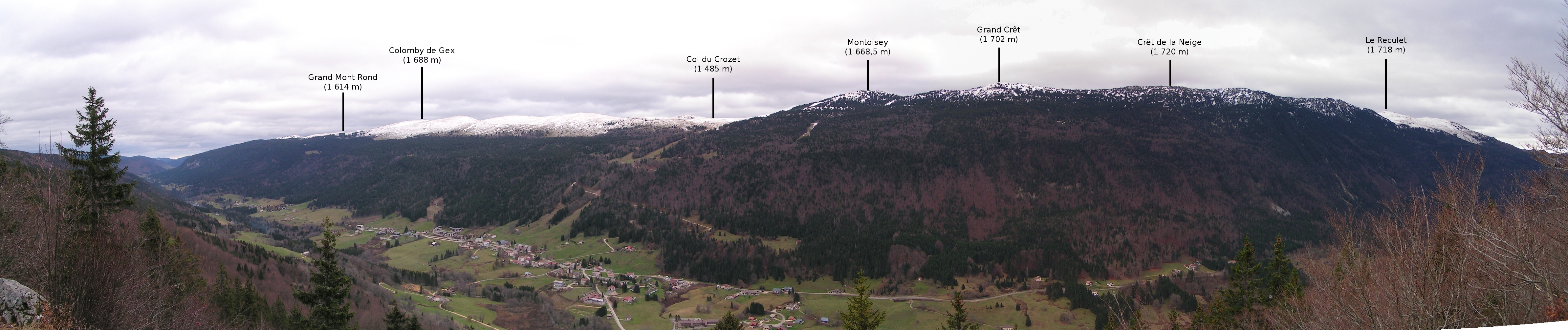 Panoramic view of Monts Jura and Valserine valley from the belvédère du Truchet (Ain, France). Legends version.